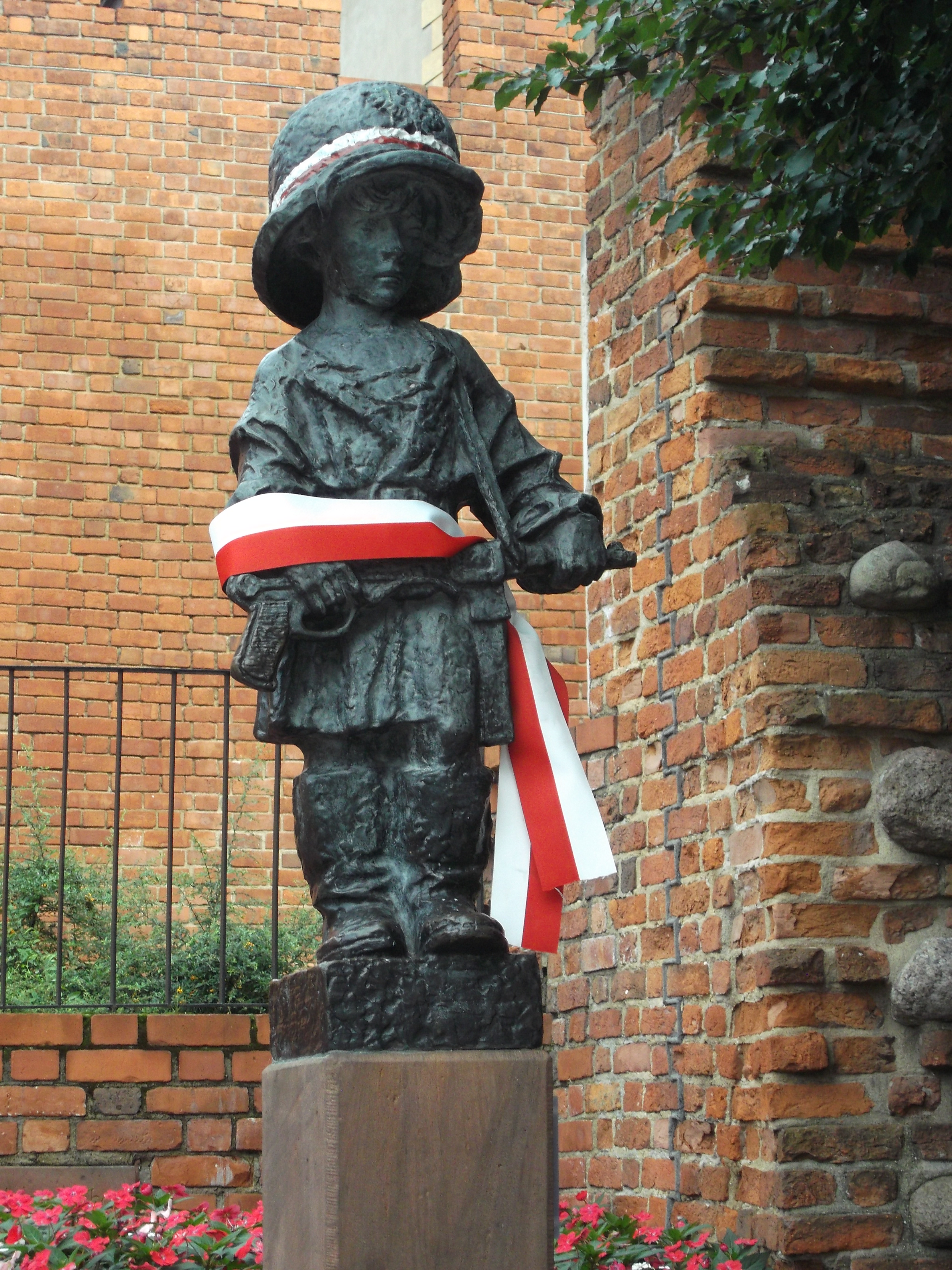 Little Insurgent Monument in Warsaw. English | Polski | +/−